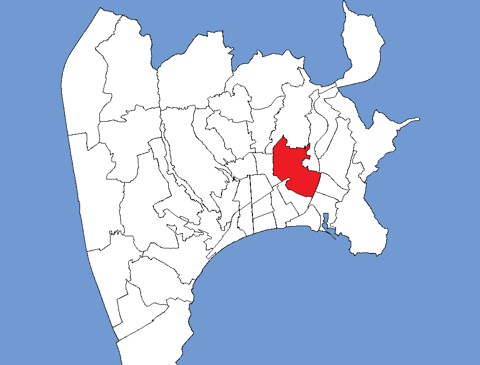 Location of the neighbourhood Cimiez in Nice